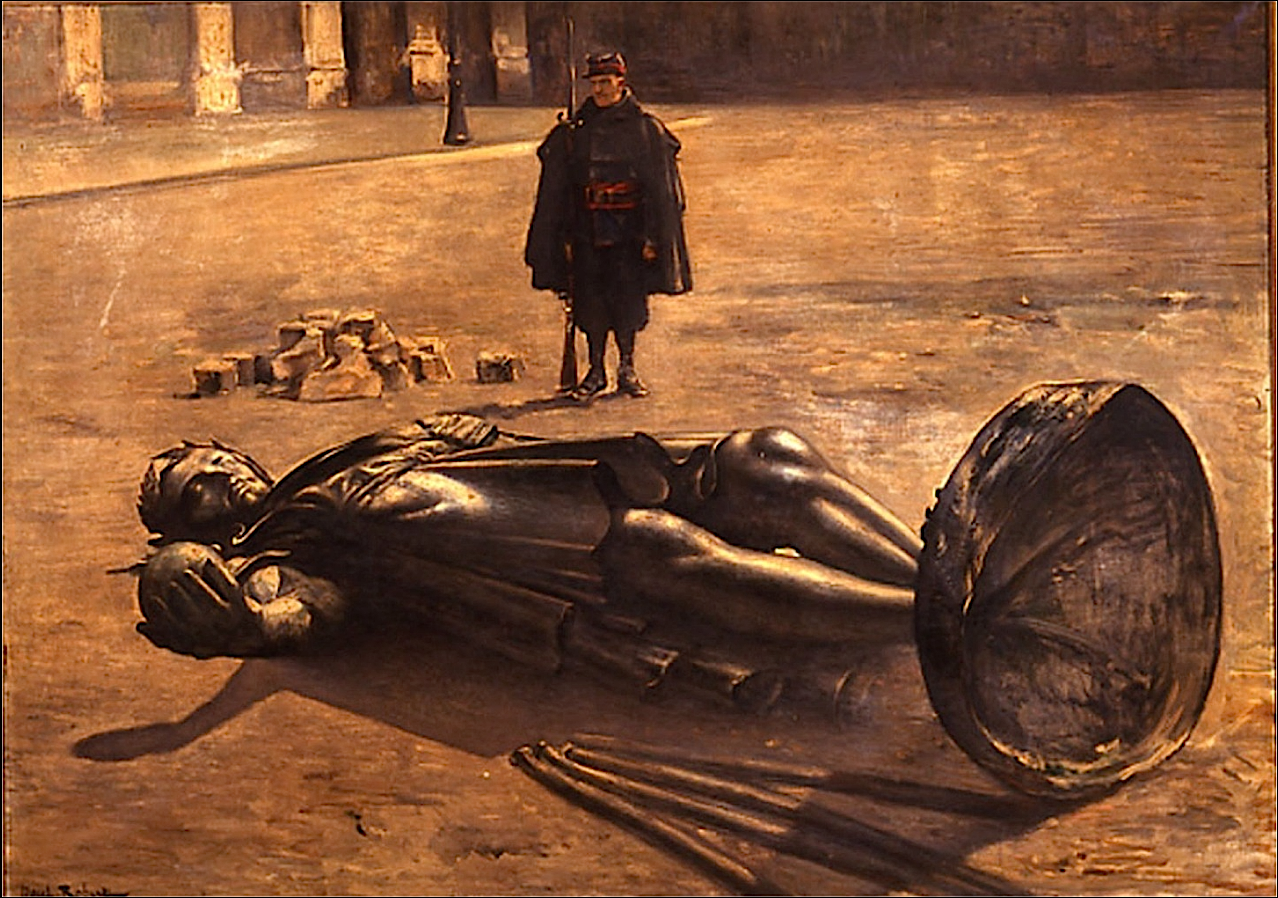 La Colonne Vendôme renversée, oil on canvas, dim.: 100 x 140 cm, signed down left "Paul Robert" in black. Acquisition: 1935 by the Musée d'art et d'histoire Paul Eluard de Saint-Denis (France) Catalogue Index: 2016.0.45